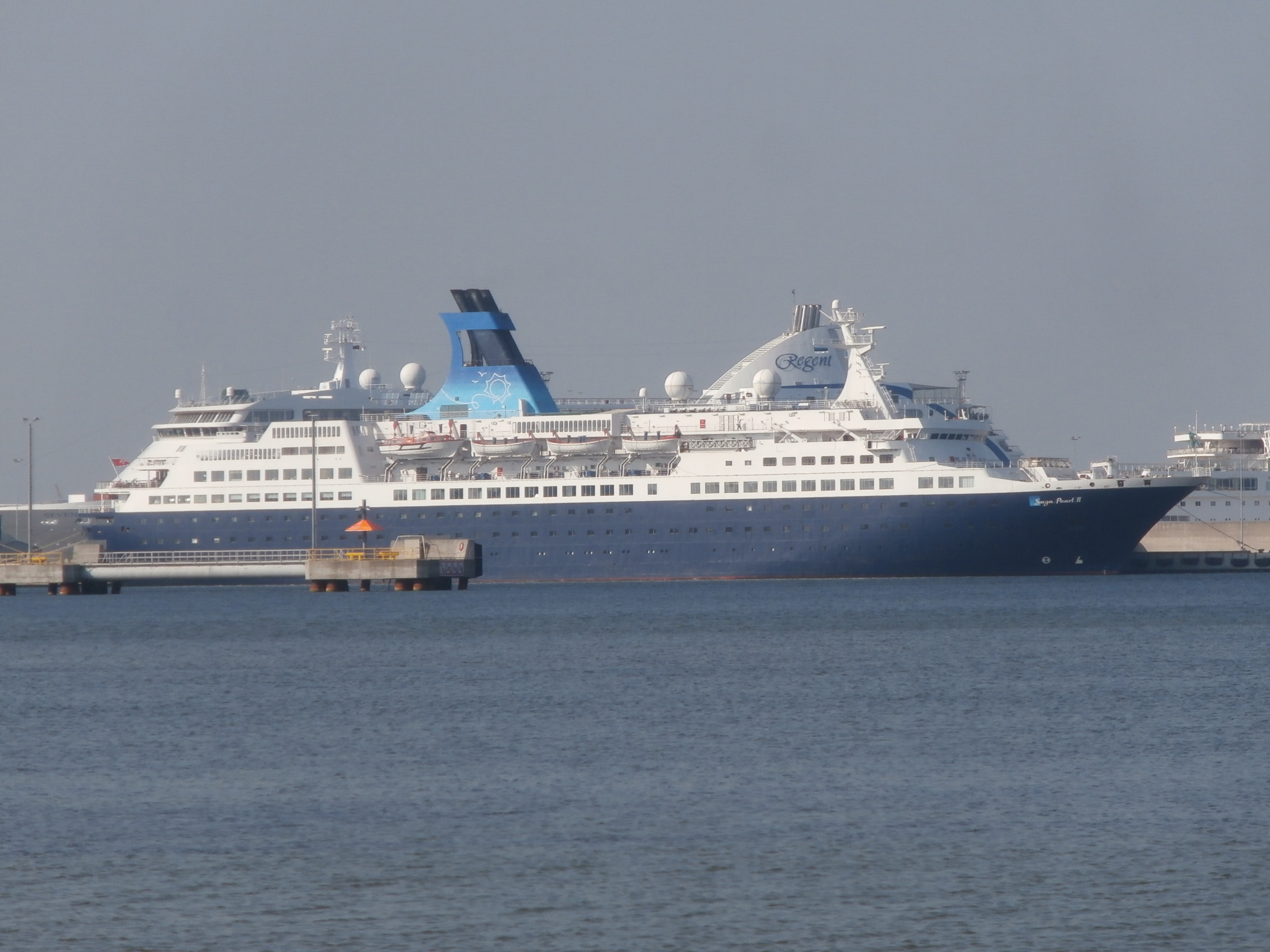 Saga Pearl II at quays 15 and 16 in Tallinn 20 September 2014